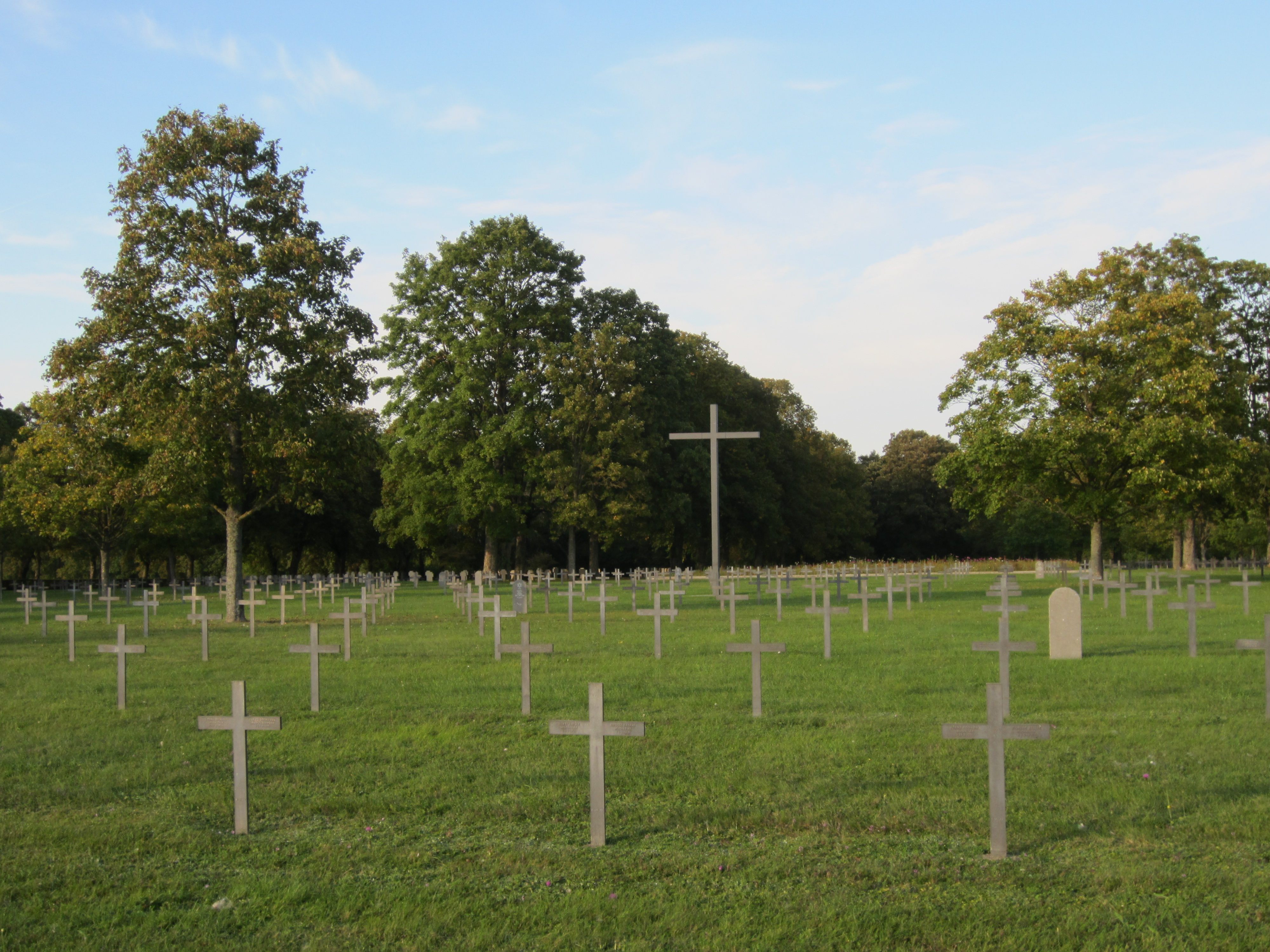 Description cimetiere militaire allemand Thiaucourt Date30 September 2011Sourcemon appareil photoAuthorAimelaimePermission (Reusing this file) cimetiere militaire allemand Thiaucourt